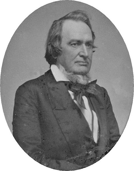 Portrait of Gerrit Smith taken some time in the 1840s